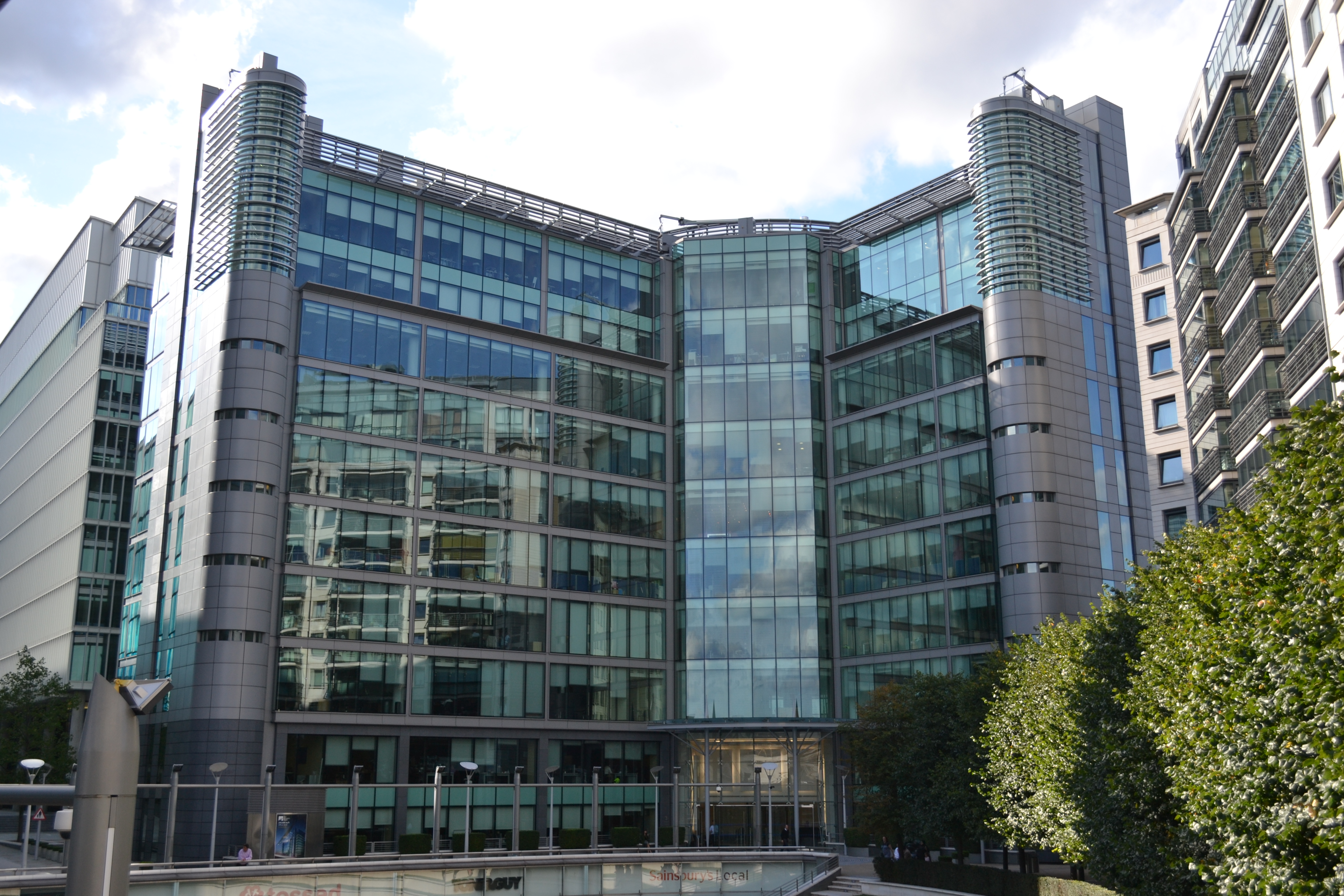 Kingfisher plc head office - 3 Sheldon Square, Paddington, London, W2 6PX, United Kingdom